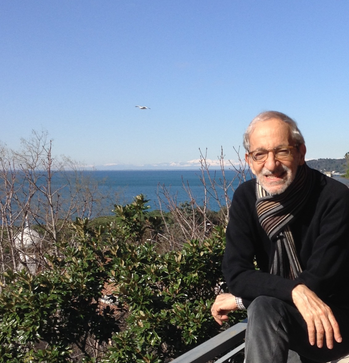 Julian Chela-Flores and the gulf of Trieste